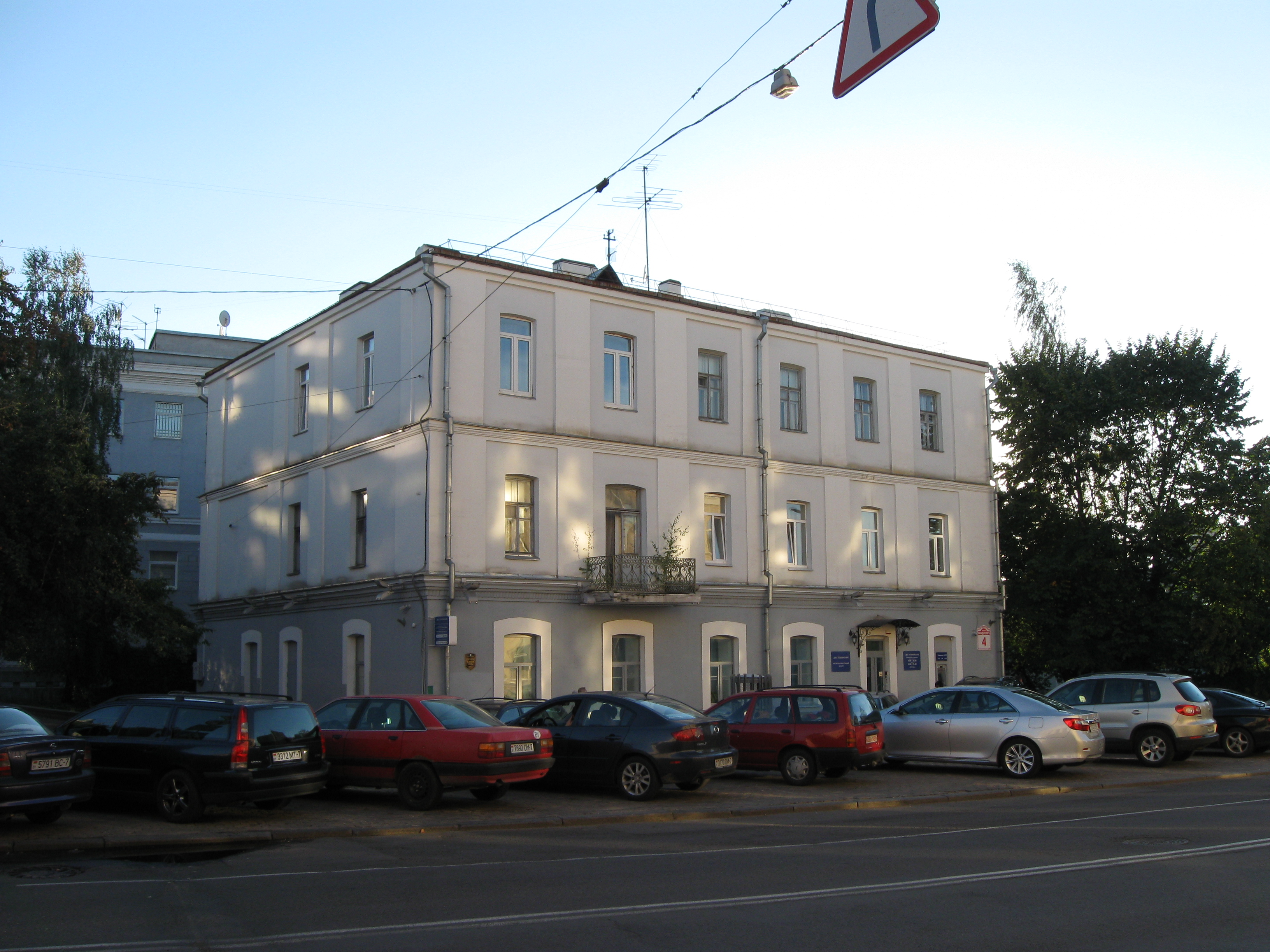 Беларуская (тарашкевіца): Будынак. г. Менск This is a photo of Belarusian heritage monument. Reference number: 713Г000018 ( WLM)